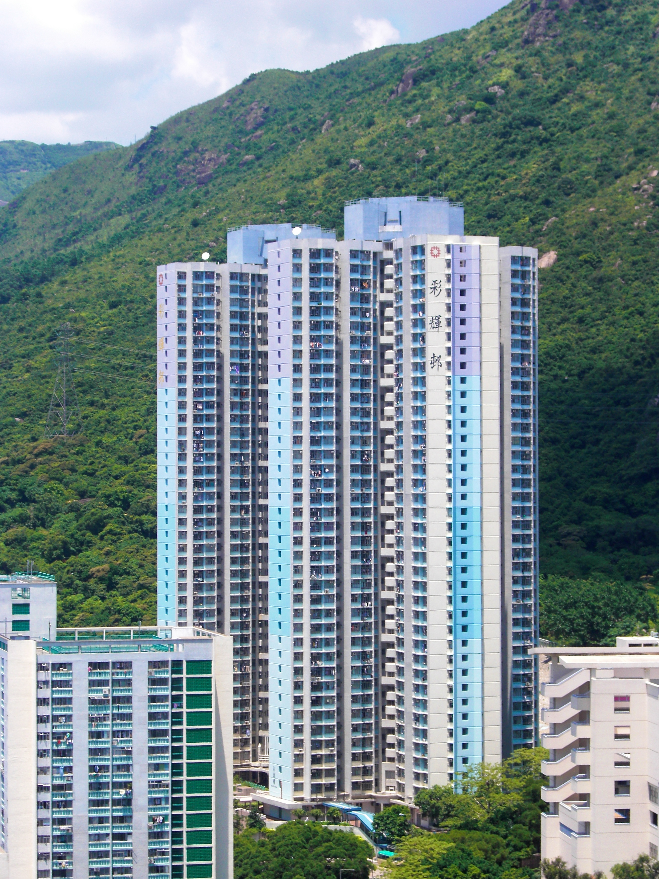 Looking downwards from Ping Shan, Choi Fai Estate is seen, while Choi Wan Estate stands in the lower left conner.